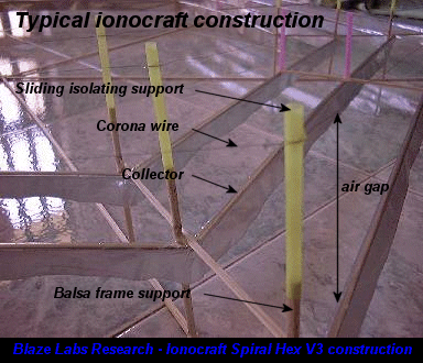 Author : Ing. X. Borg - Blaze Labs Research